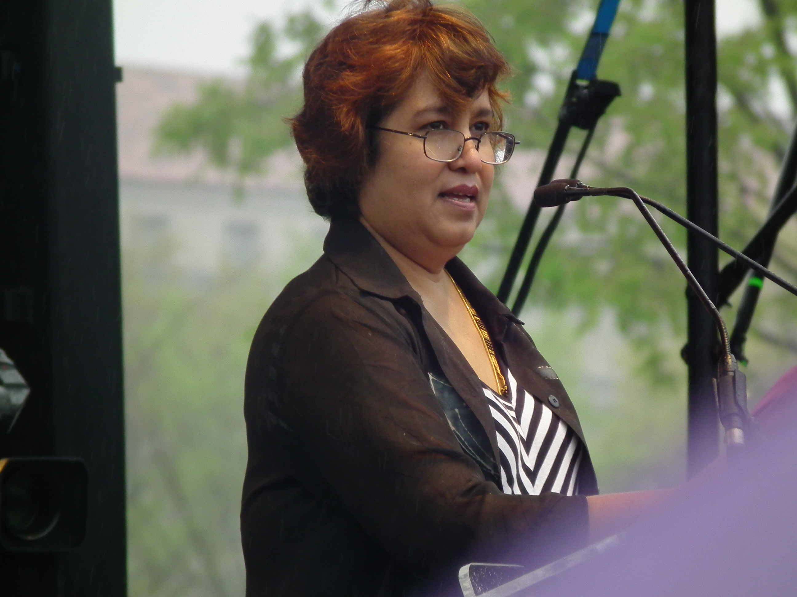 Taslima Nasrin Author of more than thirty books, including Lajja (“Shame”); Prolific activist for gender equality, free thought, and human rights.